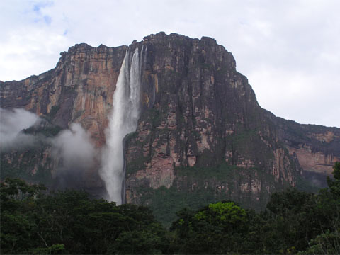 Angel falls